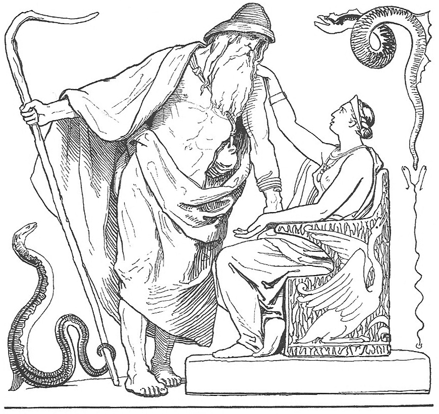 The god Odin and his wife, the goddess Frigg, from the beginning of the poem Vafþrúðnismál (1895) by Lorenz Frølich. Title not given in work.